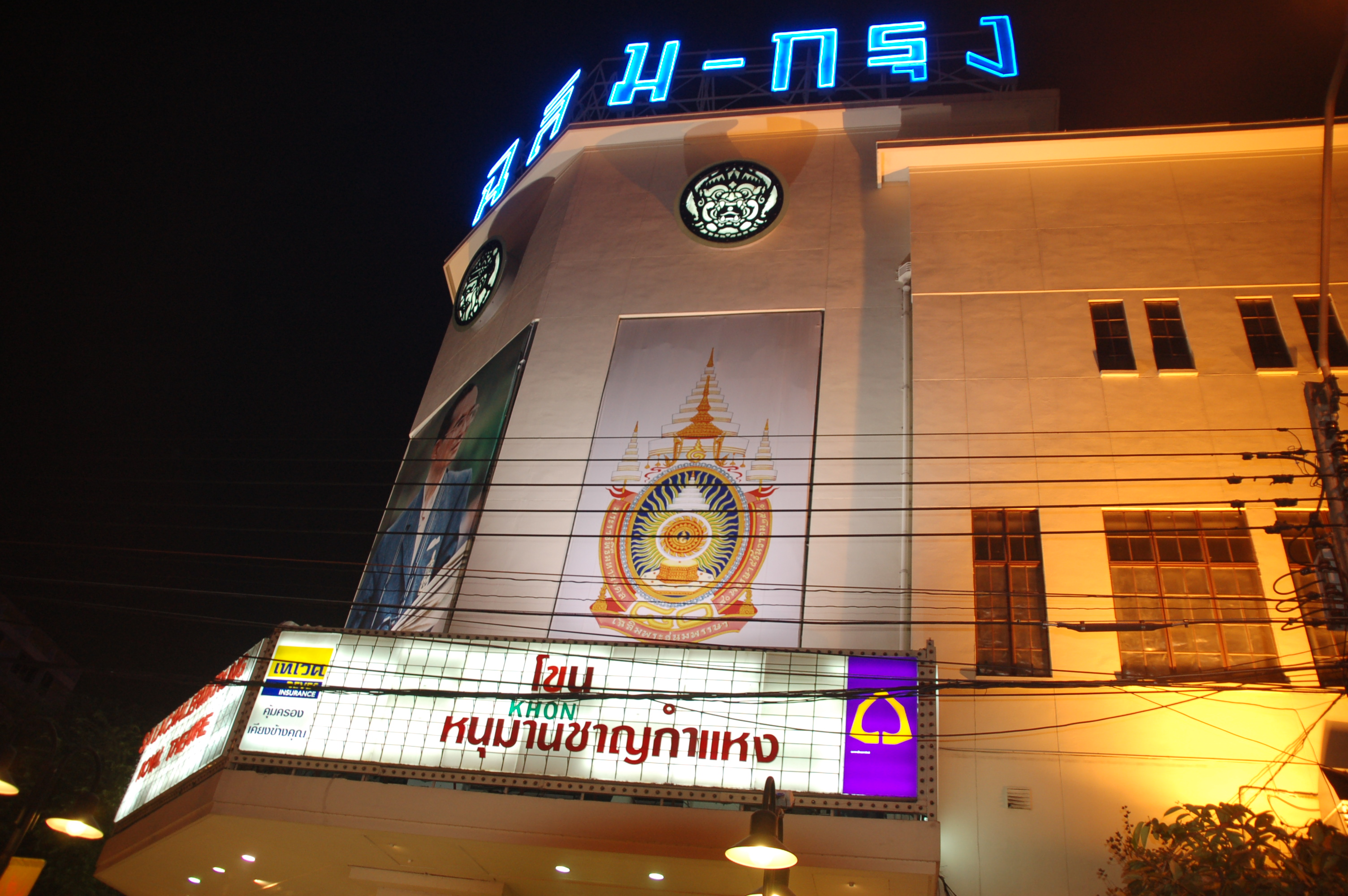 Sala Chalermkrung Royal Theatre, Bangkok's oldest cinema. Thailand